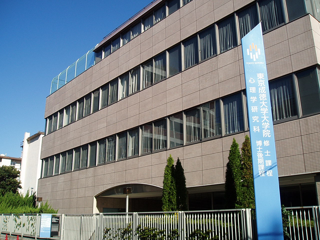 Graduate School of Tokyo Seitoku University located in Kita, Tokyo, Japan.